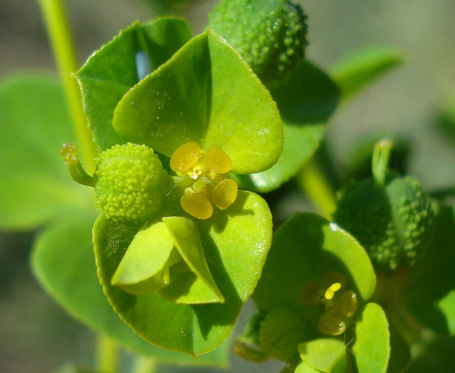 Euphorbia platyphyllos (Unterfranken, Germany)